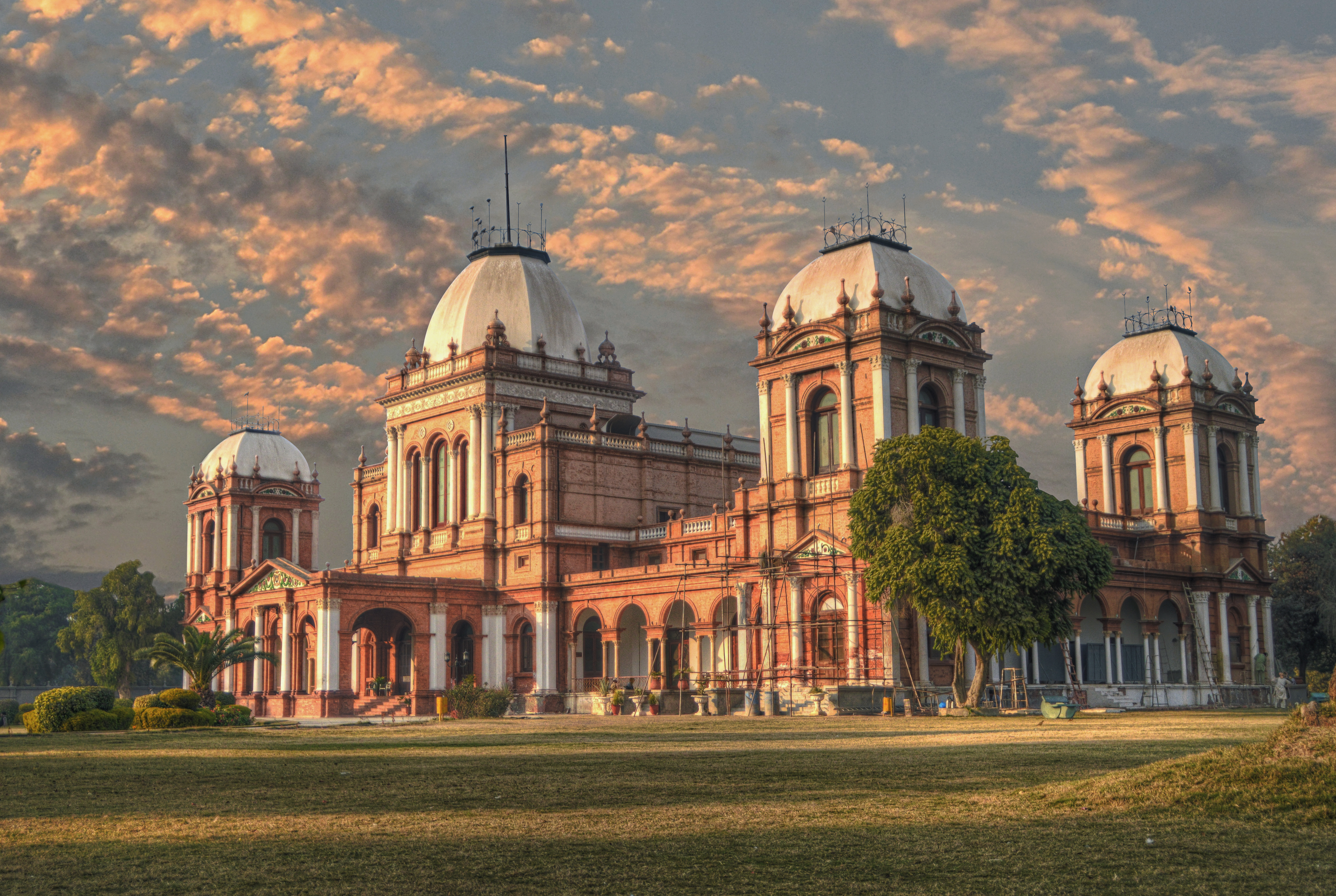 Noor Mahal This is a photo of a monument in Pakistan identified as the PB-U-4